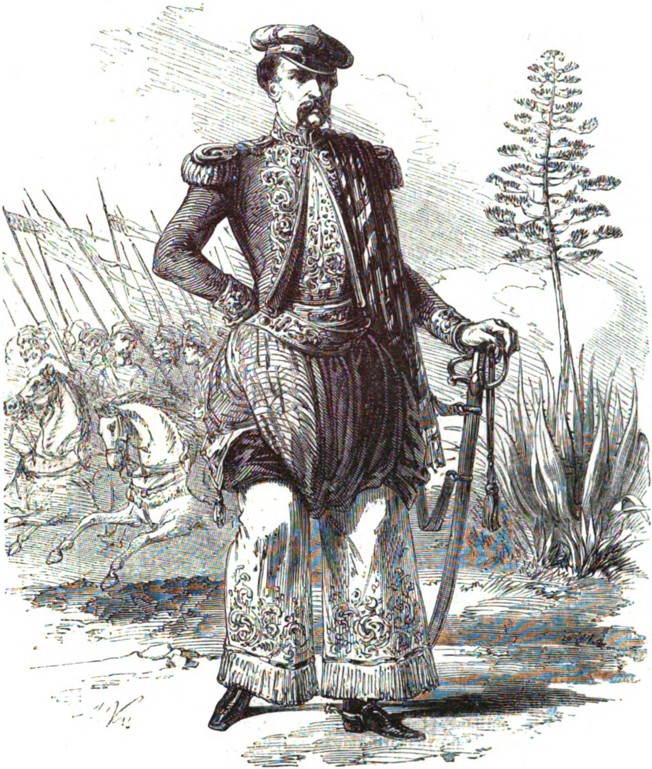 General Urquiza.